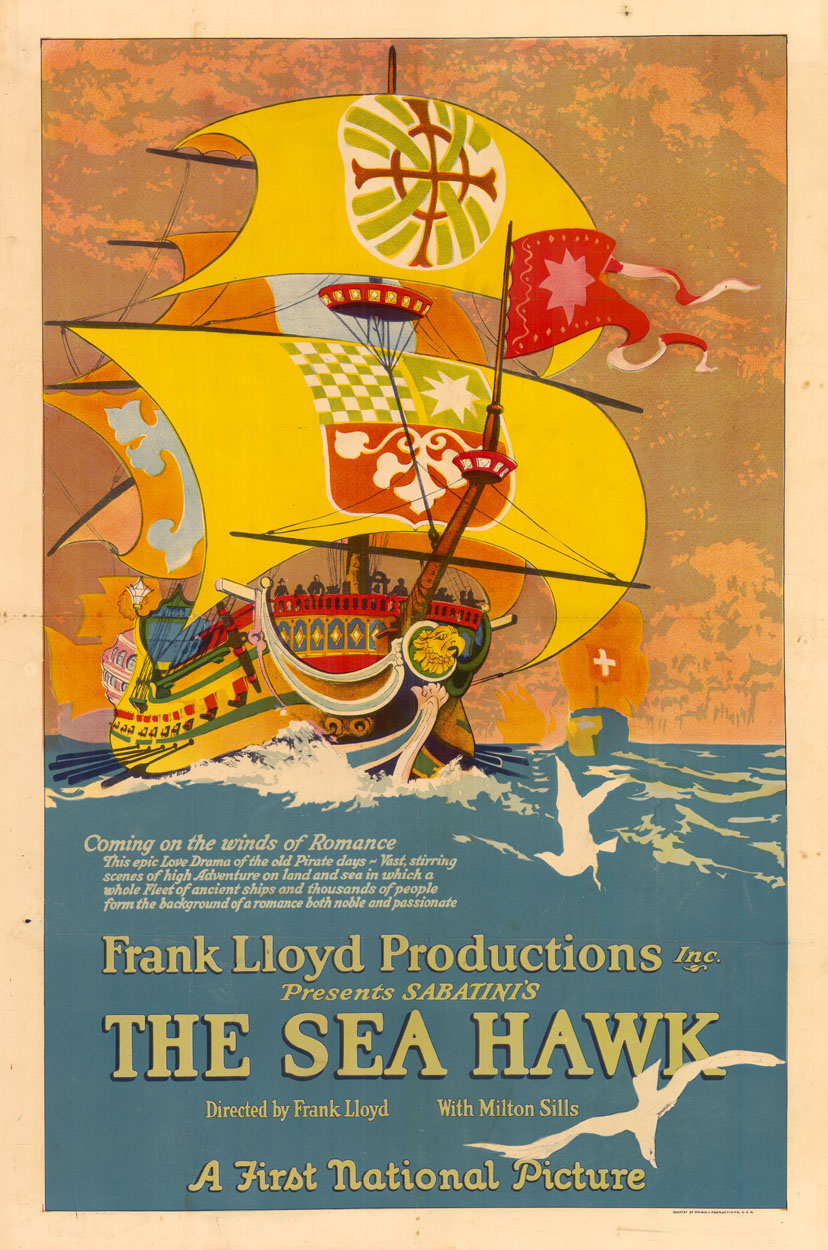 Poster for the American adventure film The Sea Hawk (1924). There are no copyright markings pertaining to the image as can be seen in the links above. At bottom is Country of origin & production USA.